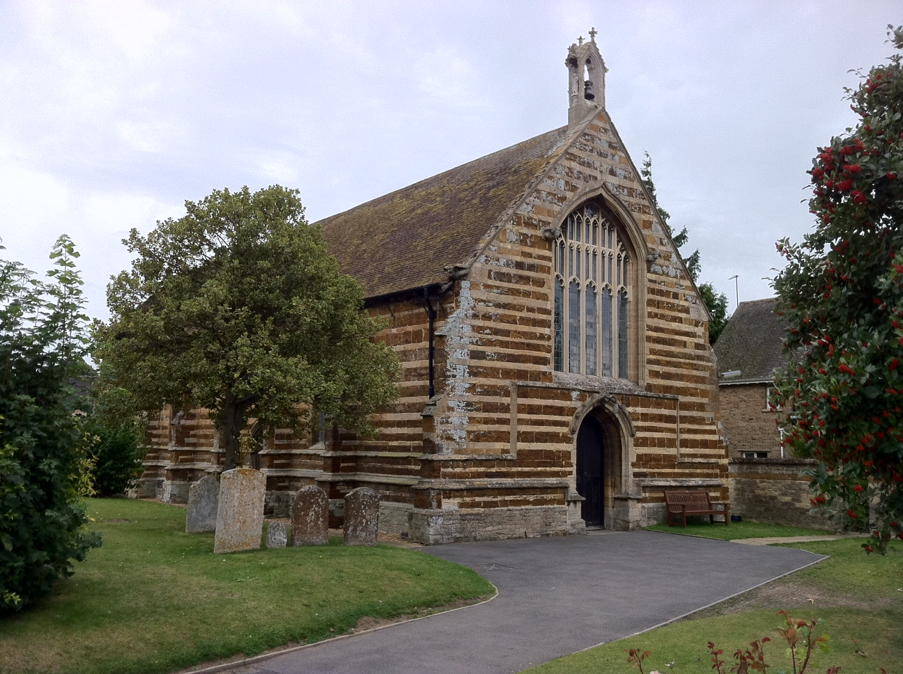 Bede House, Higham Ferrers, Northamptonshire, seen from the northwest from the parish churchyard of St Mary the Virgin